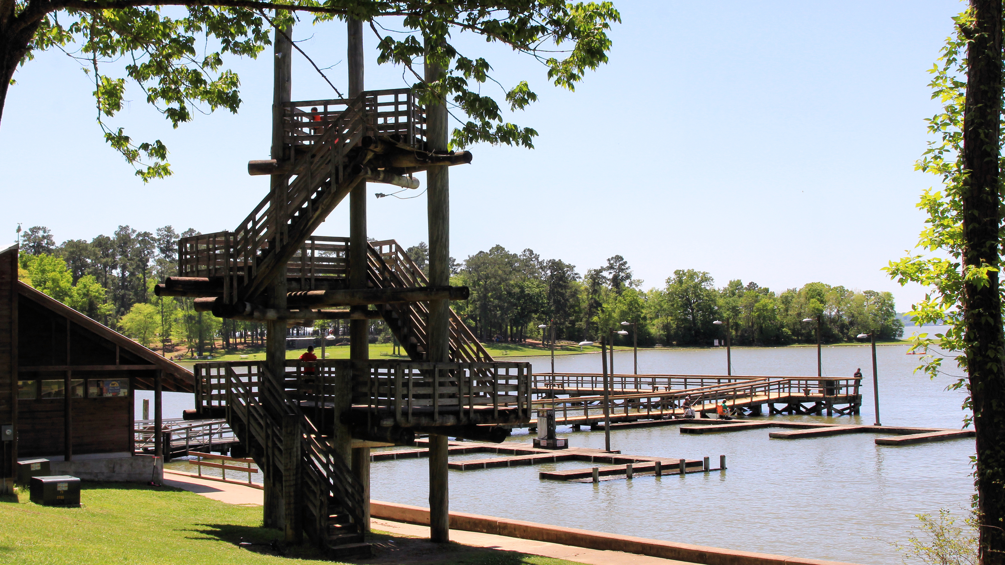 Observation Tower at Lake Livingston State Park, Texas, United States